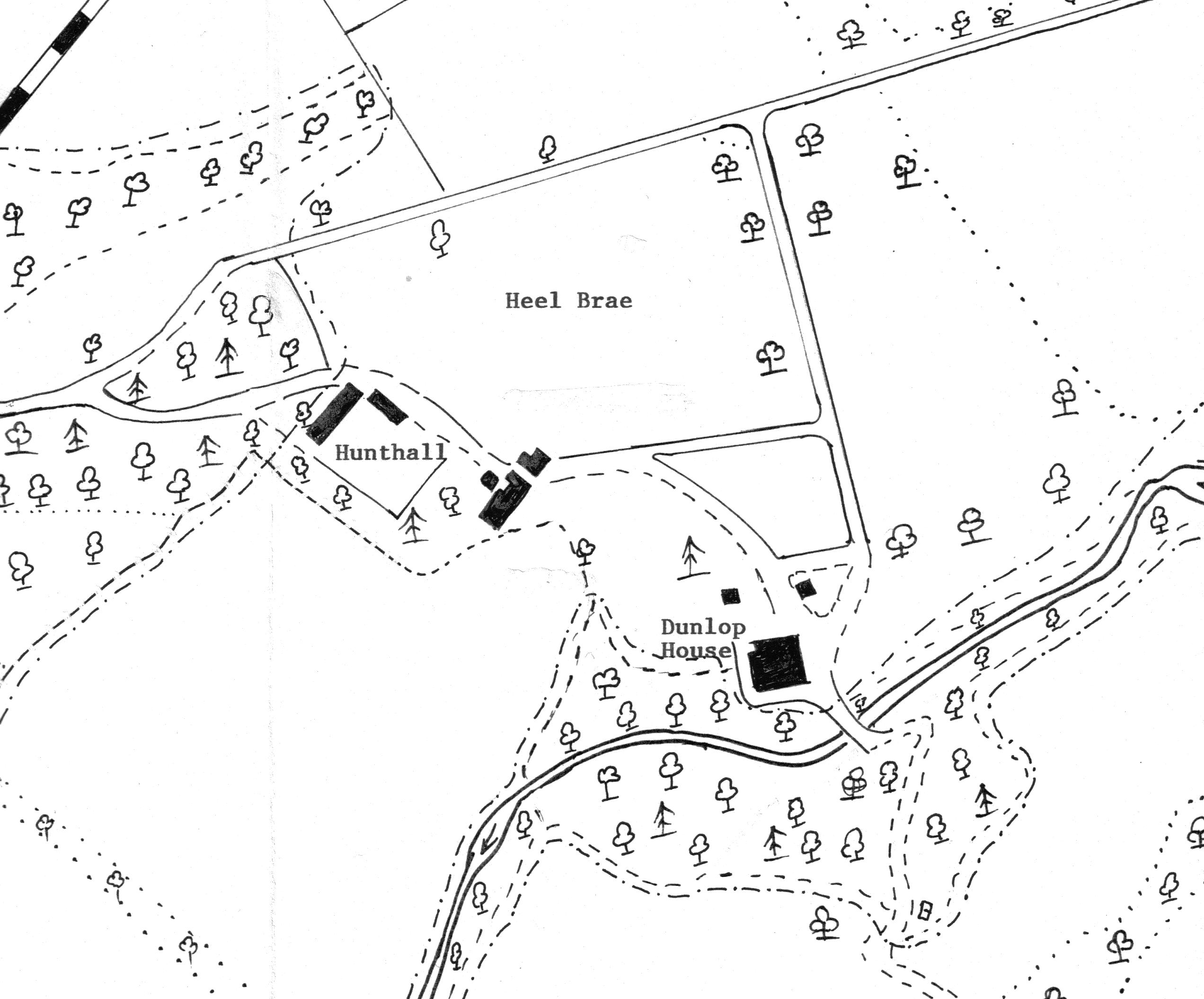 A map of Dunlop house and Hunt hall near Dunlop, East Ayrshire, Scotland.